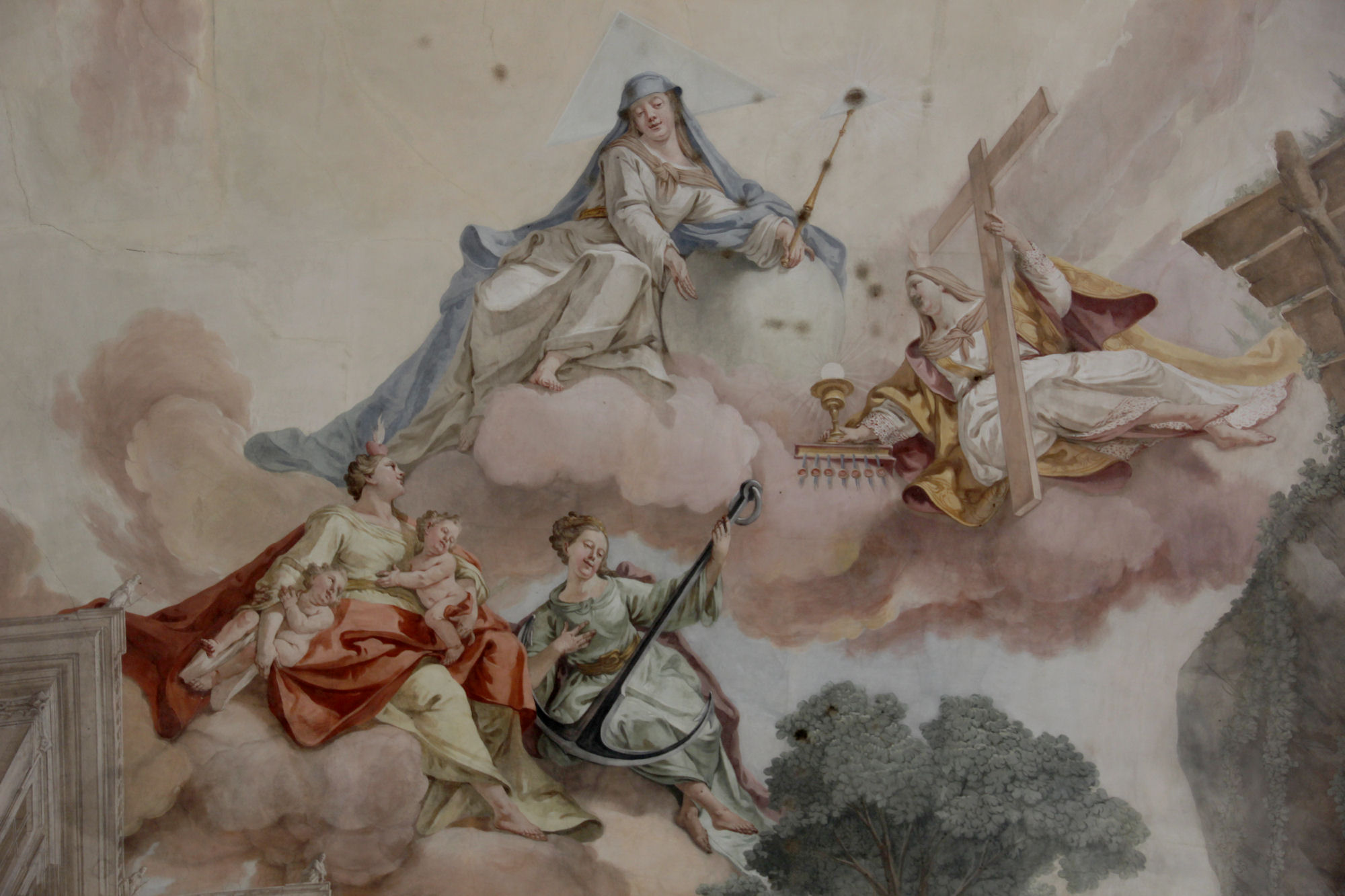 St. Leohard (Rechthal) Native nameSt. Leonhard LocationBavaria , GermanyCoordinates47° 50′ 47.05″ N, 11° 01′ 45.97″ E Authority control : Q46813918 institution QS:P195,Q46813918